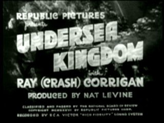 Undersea Kingdom title screen that was used in all chapters. This screencap was taken by me.